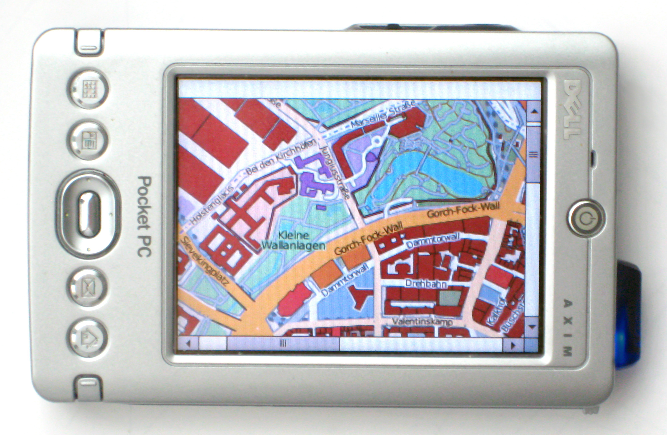 OpenStreetMap city map on a PDA